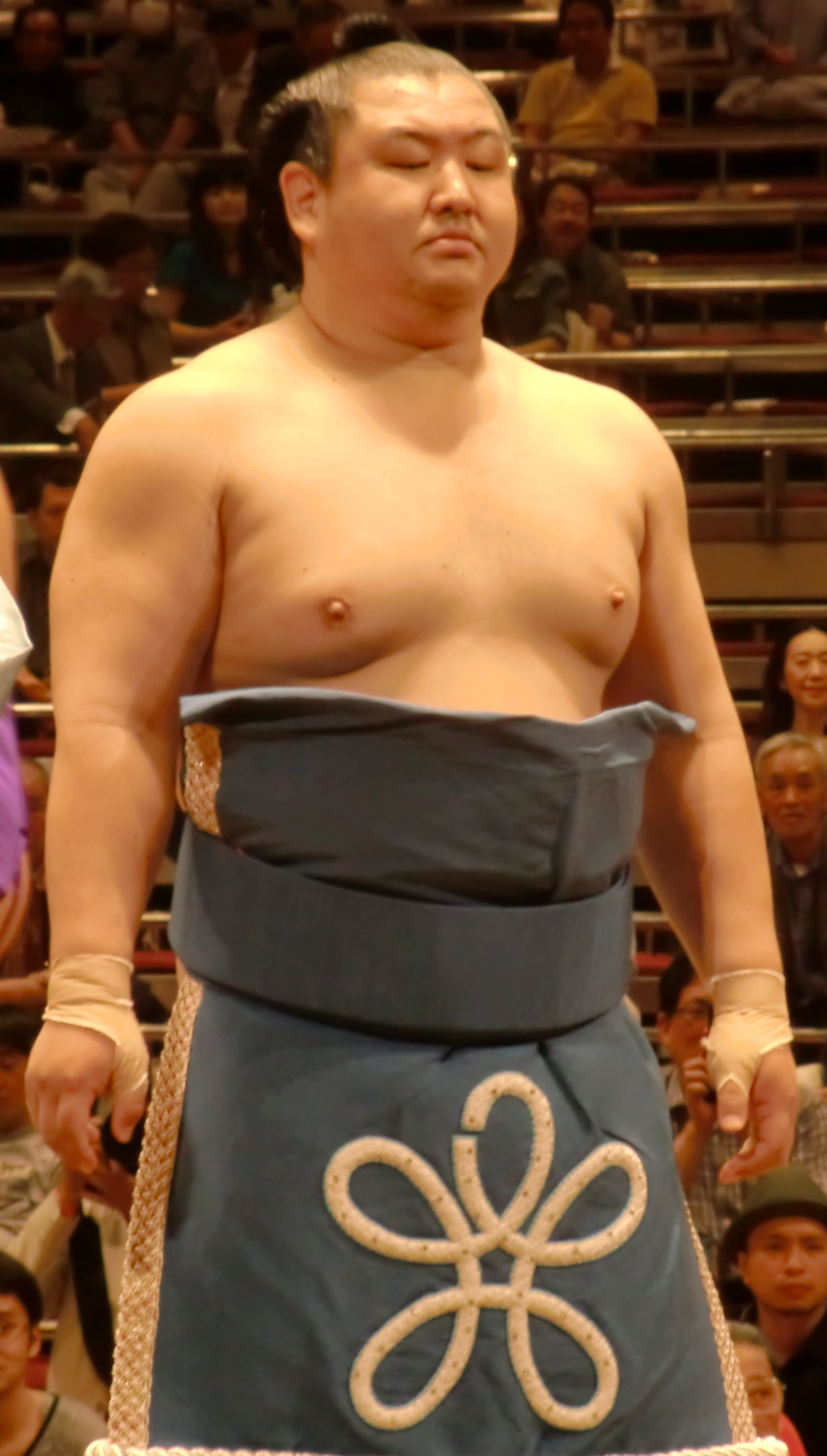 taken at 2010 May tournament